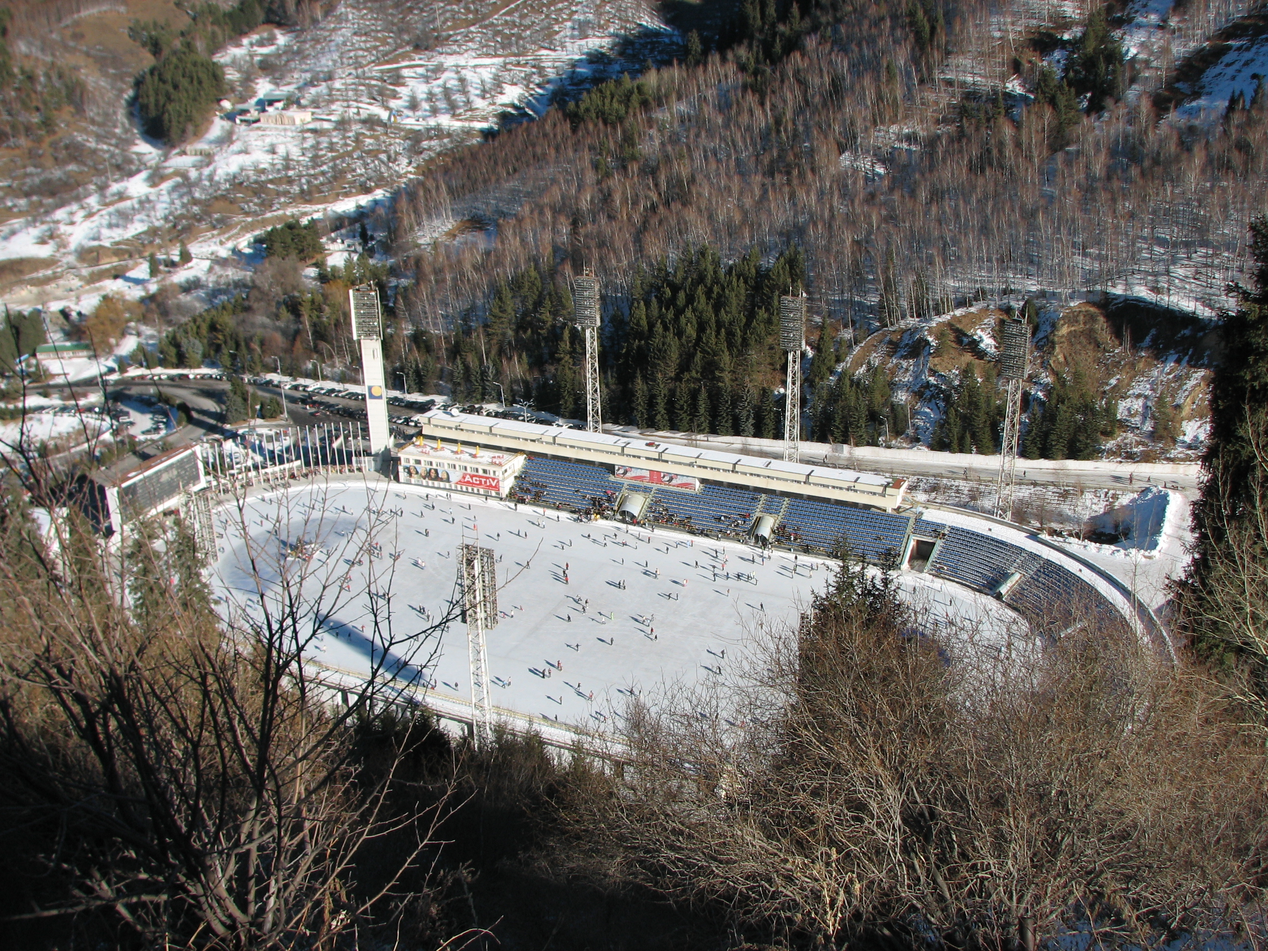 Medeo, Almaty